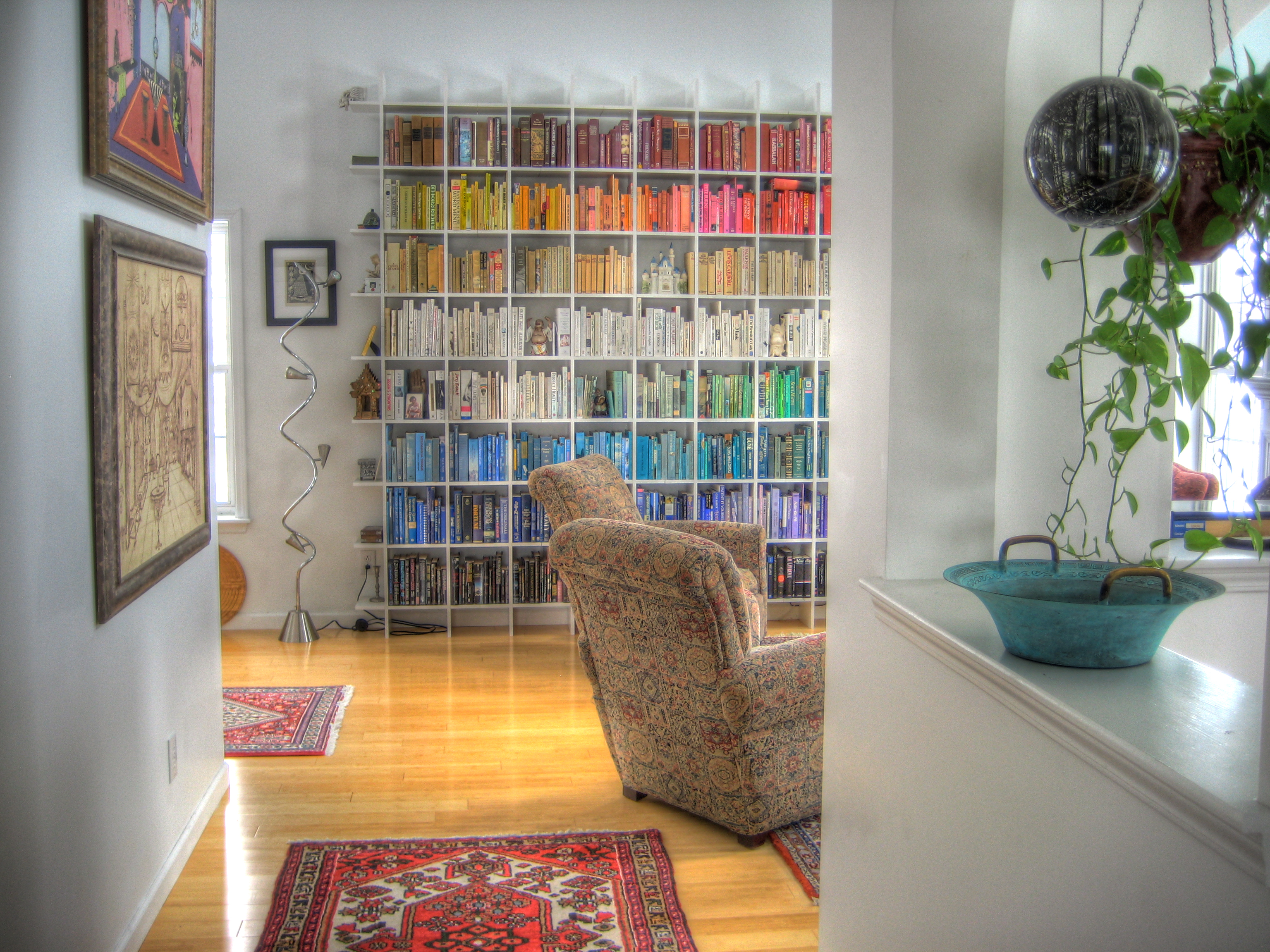 Rainbow Bookshelf